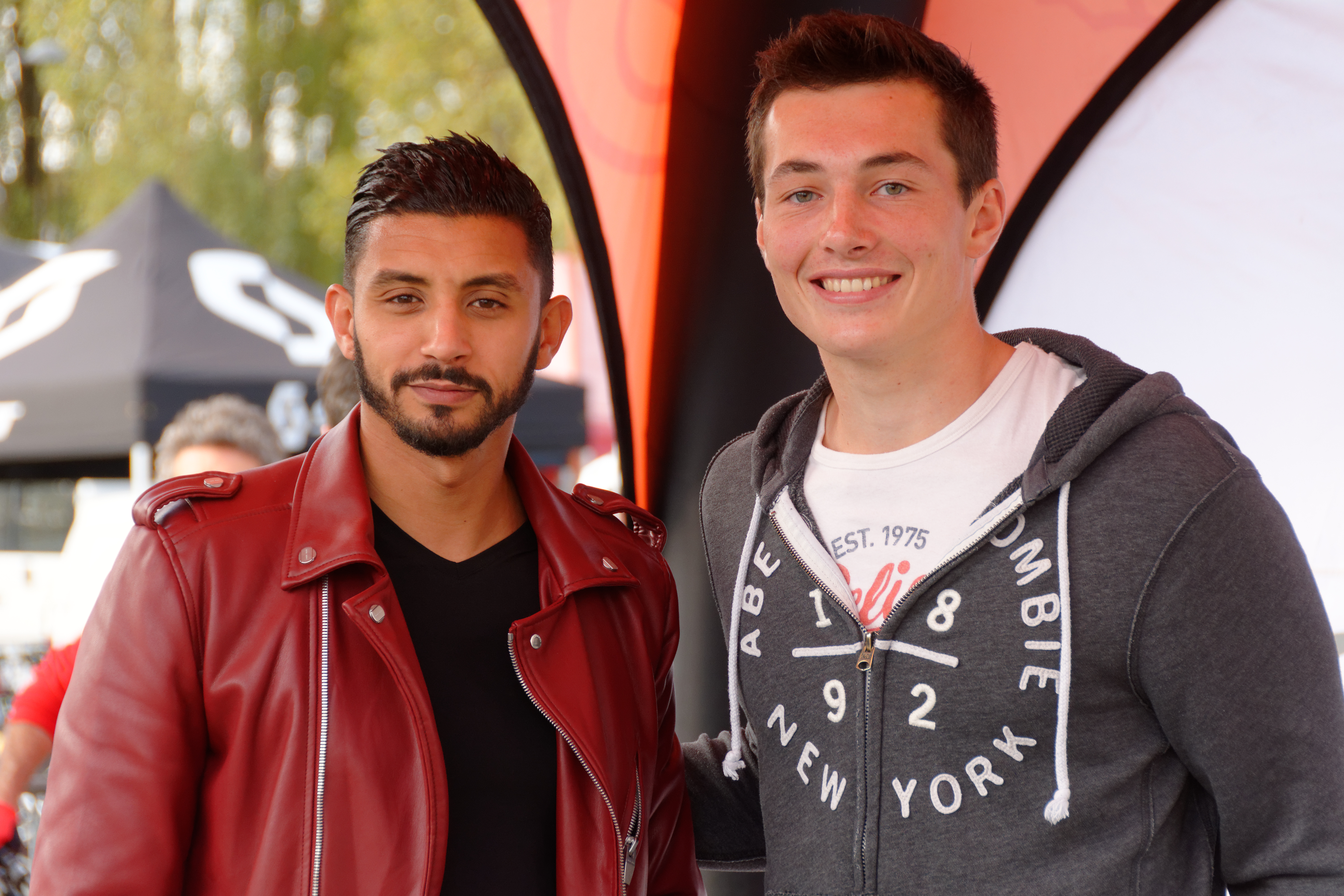 Personality rights warningAlthough this work is freely licensed or in the public domain, the person(s) shown may have rights that legally restrict certain re-uses unless those depicted consent to such uses. In these cases, a model release or other evidence of consent could protect you from infringement claims.